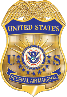 Drawn representation of a Federal Air Marshal badge.